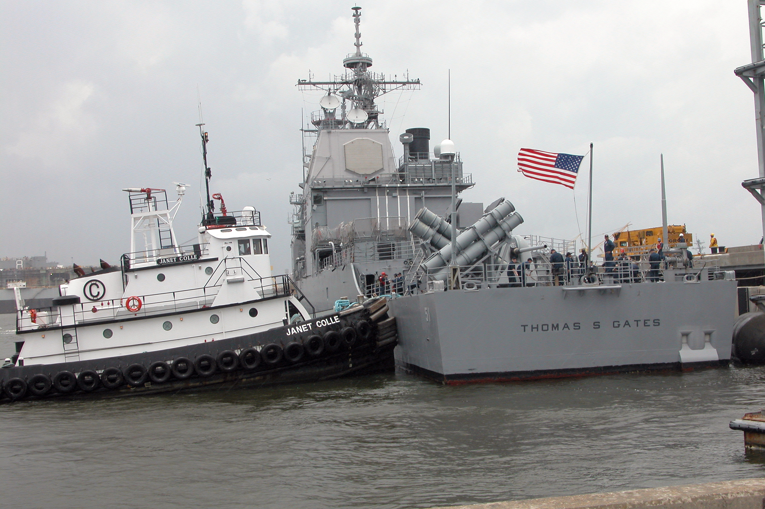 Pascagoula, Miss. (June 10, 2005) - The guided missile cruiser USS Thomas S. Gates (CG 51) gets underway from Naval Station Pascagoula in order to evade approaching Tropical Storm Arlene. Naval ships typically get underway prior to approaching tropical storms and hurricanes to prevent damage to the ship and its personnel. U.S. Navy photo by Journalist 1st Class Kimberly DeJong (RELEASED)